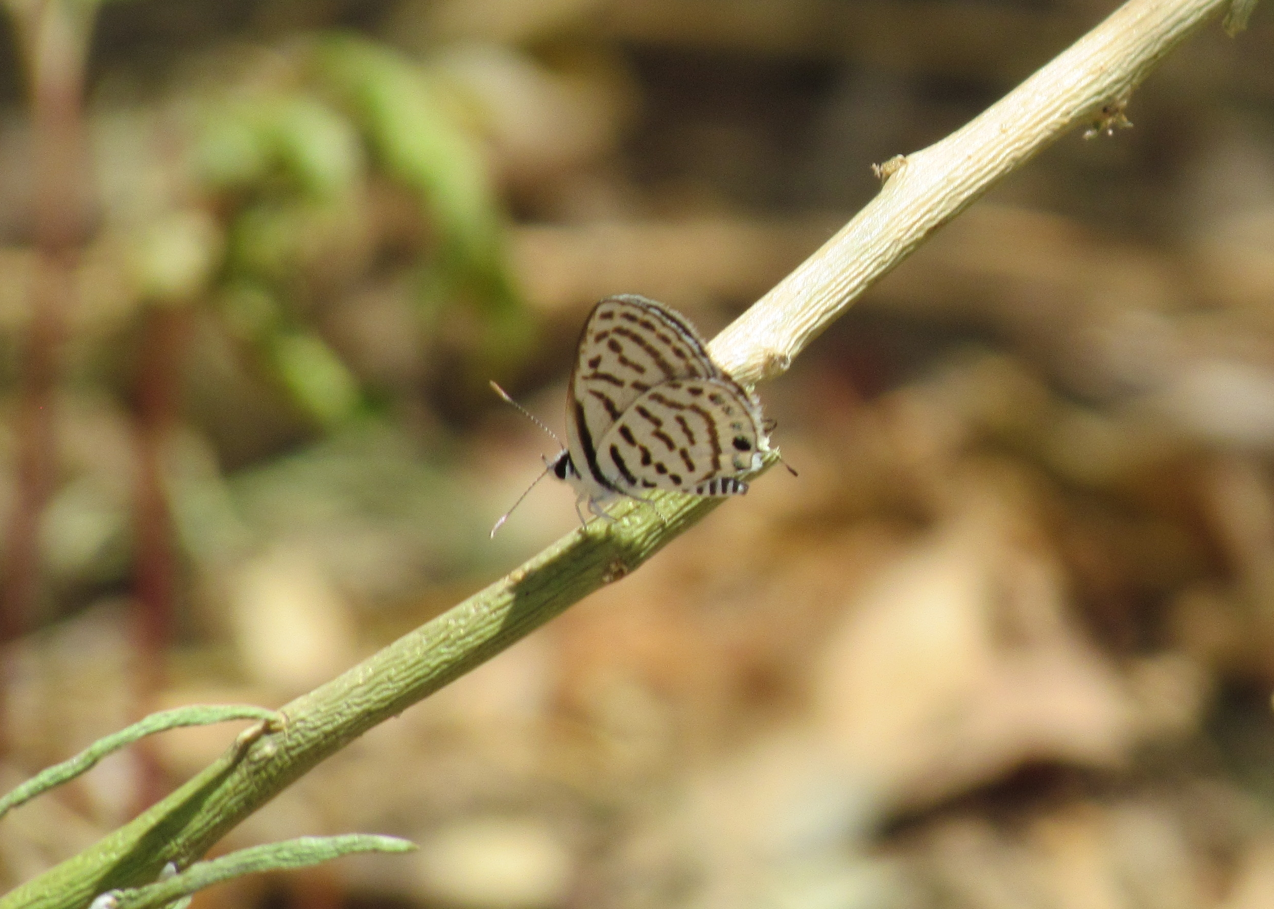 כחליל השיזף - נחל מזין ליד עץ השיזף הגדול, 3 במאי 2014